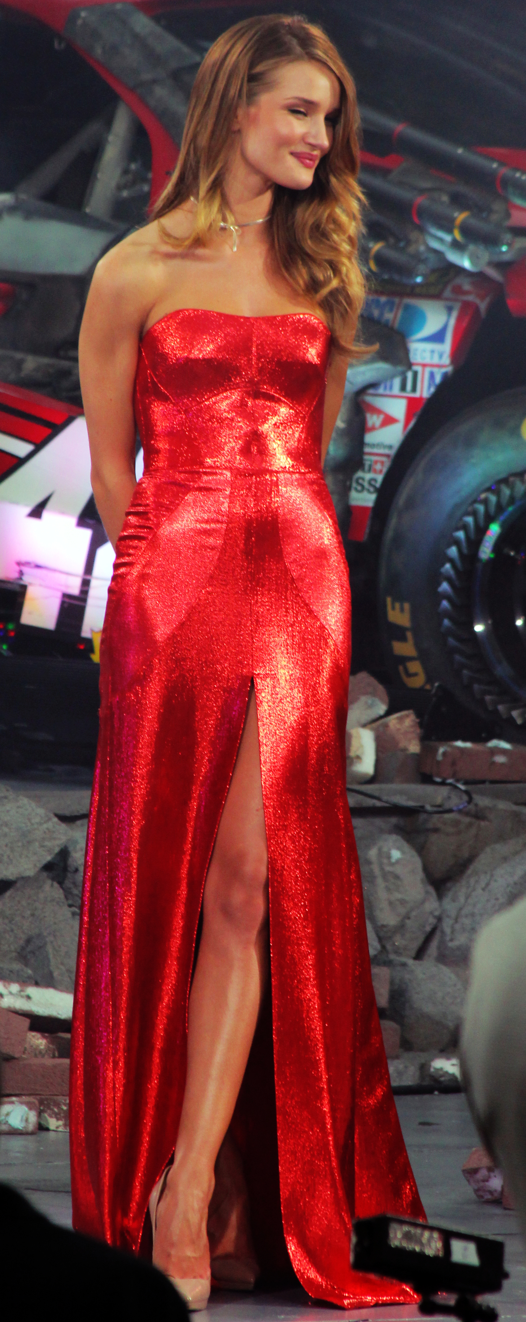 Rosie Huntington-Whiteley at the premiere for Transformers: Dark of the Moon